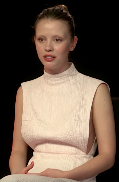 The cast of creepy new horror remake Suspiria, Dakota Johnson and Mia Goth, and director Luca Guadgnino, reveal exactly how they made the film’s moments of horror SO terrifying, Luca’s plans for Dakota Johnson to star in his Call Me By Your Name sequel, and which actor Dakota Johnson would recast as Ana in Fifty Shades for a sequel.